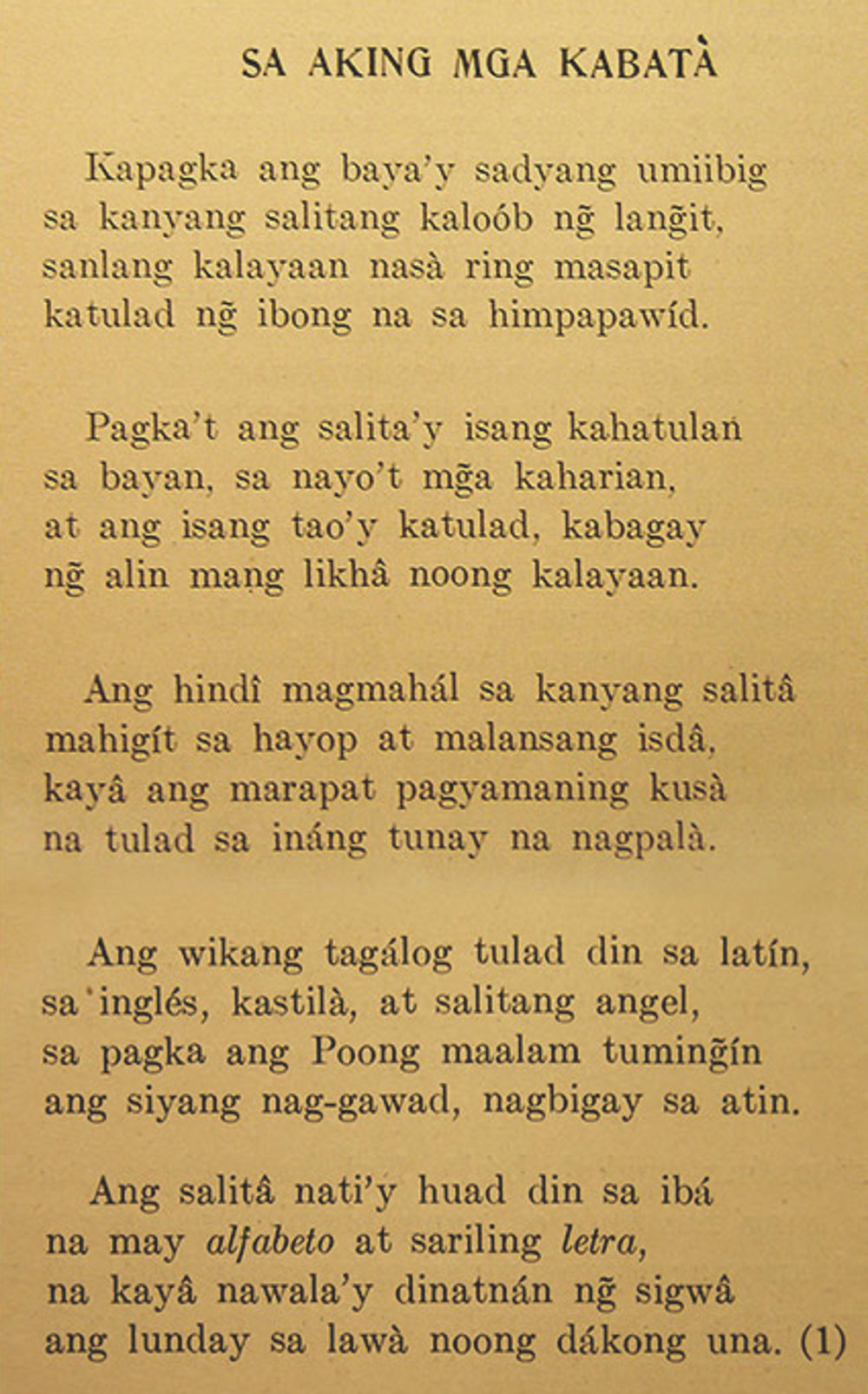 The oldest known publication of the poem Sa Aking Mga Kabata appears in Kun sino ang kumathâ ng̃ "Florante" (1906) by Hermenigildo Cruz. Purportedly written by Jose Rizal, it's more likely to be a hoax by Cruz